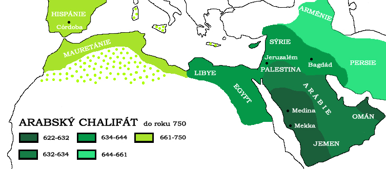 Muslim world about 750